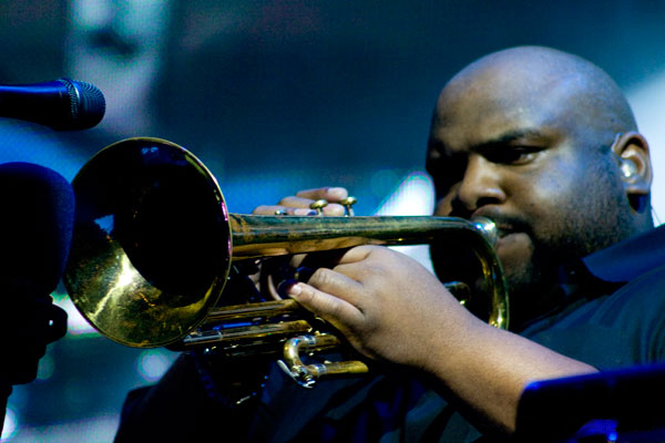 Dave Matthews Band (3/10/2008) - Pepsi Music Festival, Club Ciudad de Buenos Aires - Buenos Aires (Argentina)